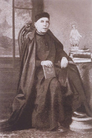 Last photograph of blessed Josep Tous i Soler, capuchin friar from Igualada, Spain; made in 1868